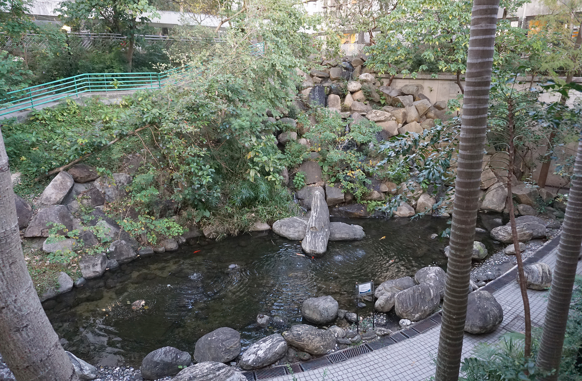 Tin Ma Court in Chuk Yuen, Hong Kong.